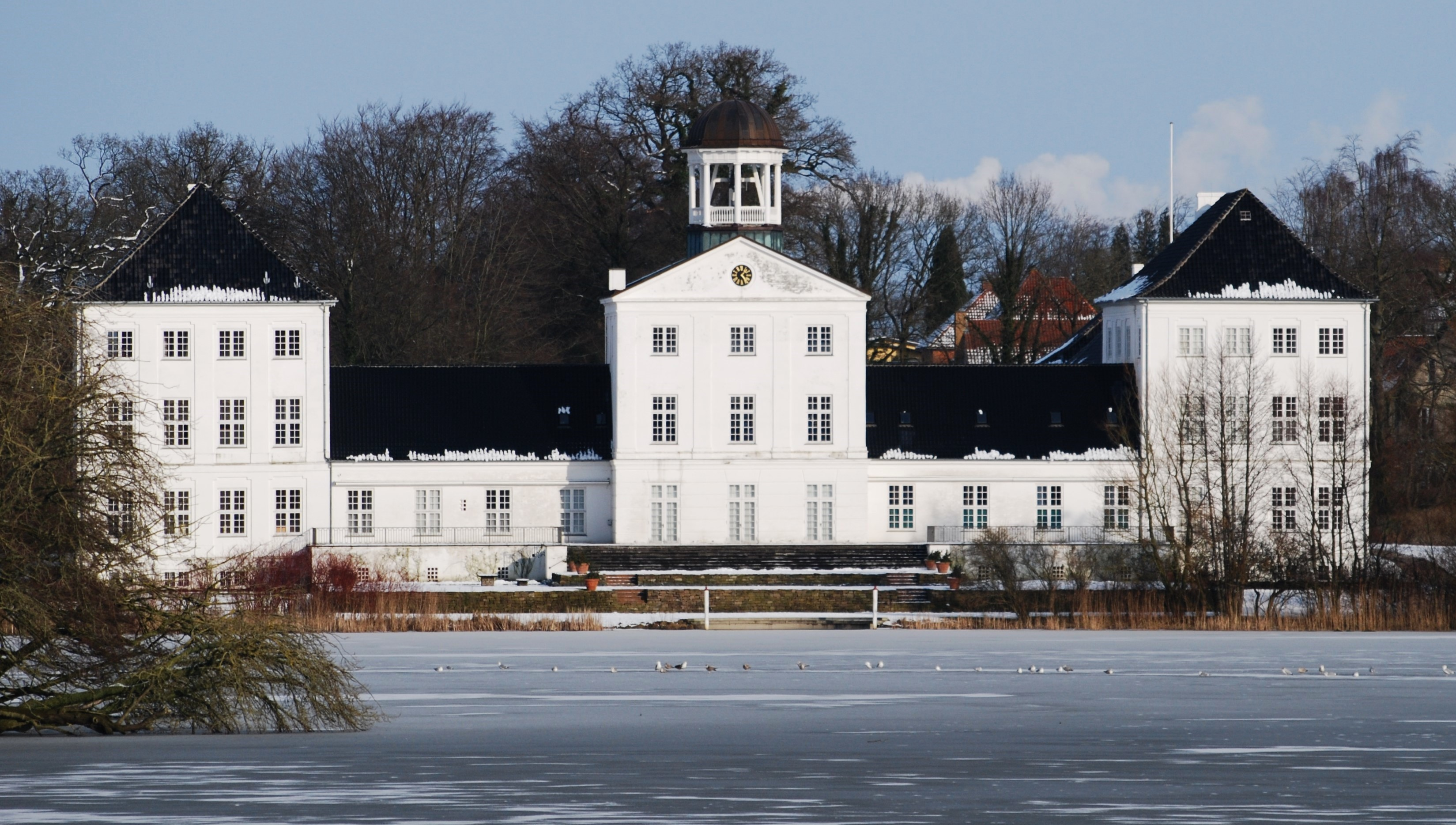 Gråsten Palace (Danish: Gråsten Slot) is best known for being the summer residence of the Danish Royal Family. It is located in Gråsten in the Jutland region of southern Denmark